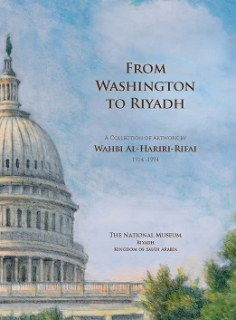 Exhibition catalogue from 2012 exhibit at the National Museum, Riyadh, Saudi Arabia. Foreword: Adelah bint Abdulla bin Abdul-Aziz Al Saud, President of the Consultative Committee, National Museum, Riyadh, Kingdom of Saudi Arabia Preface: James B. Smith U.S. Ambassador to the Kingdom of Saudi Arabia Preface: Dr. Abdulaziz Khoja Minister of Culture and Information, Riyadh, Kingdom of Saudi Arabia Introduction: Dr. Esin Atil Curator Emeritus of Islamic Arts, SMithsonian Institution, Washington, D.C. ISBN: 978-0-9624483-4-8